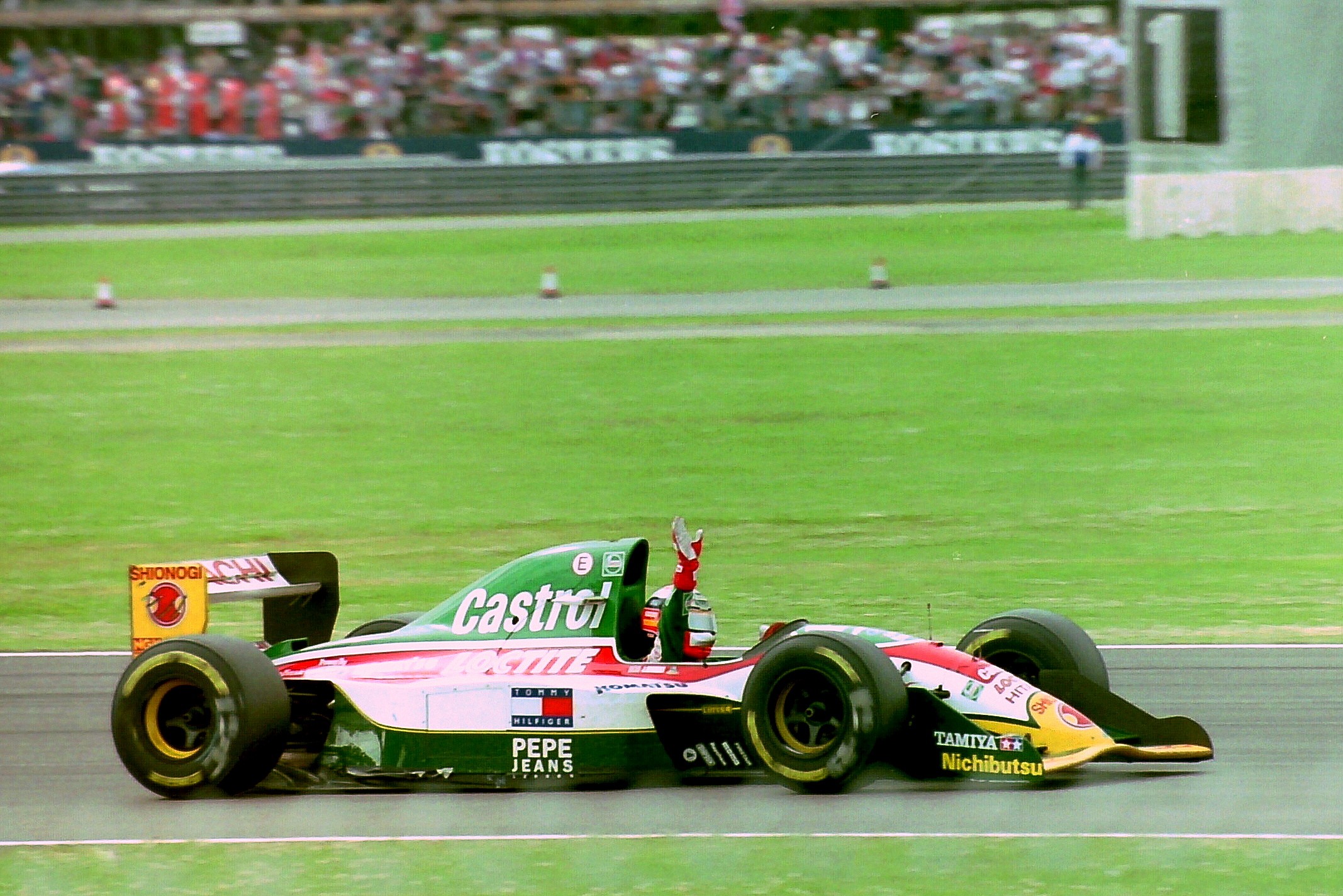 Johnny Herbert - Lotus 107 celebrates finishing fourth at the 1993 British Grand Prix